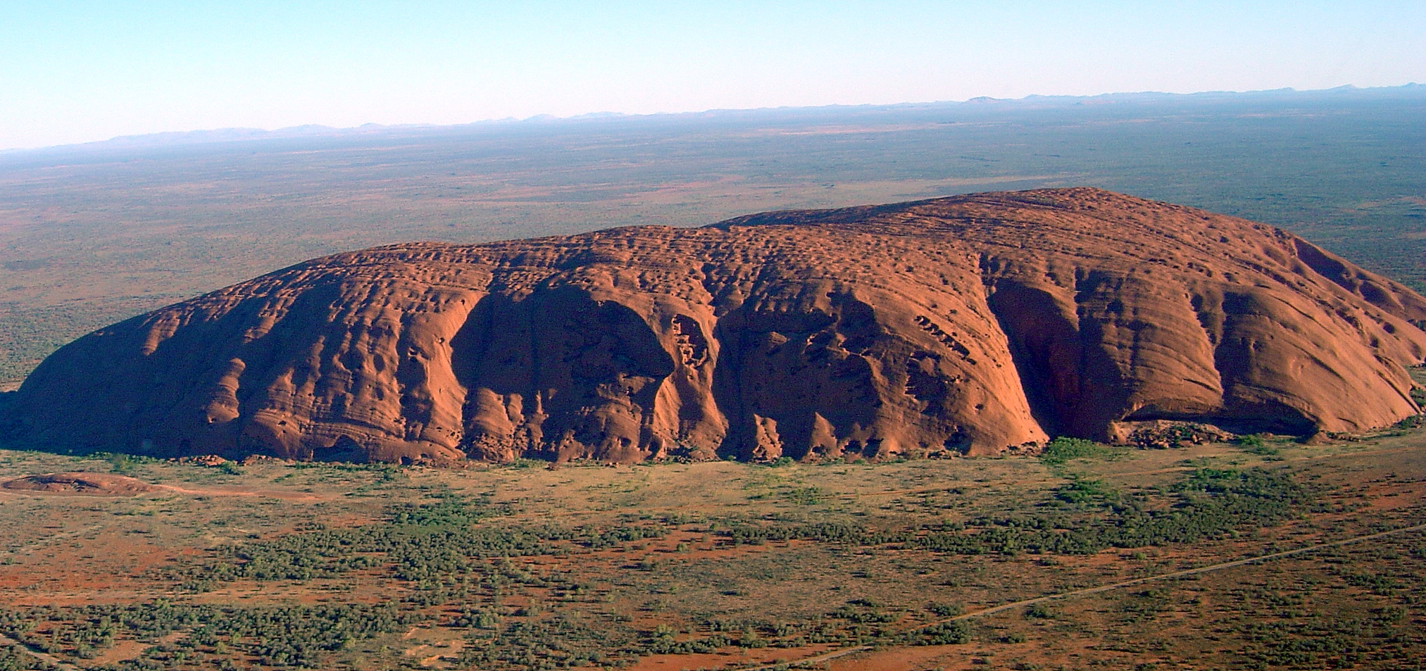 Helicopter view of Uluru/Ayers Rock. Cropped and colours enhanced for use in Infobox.